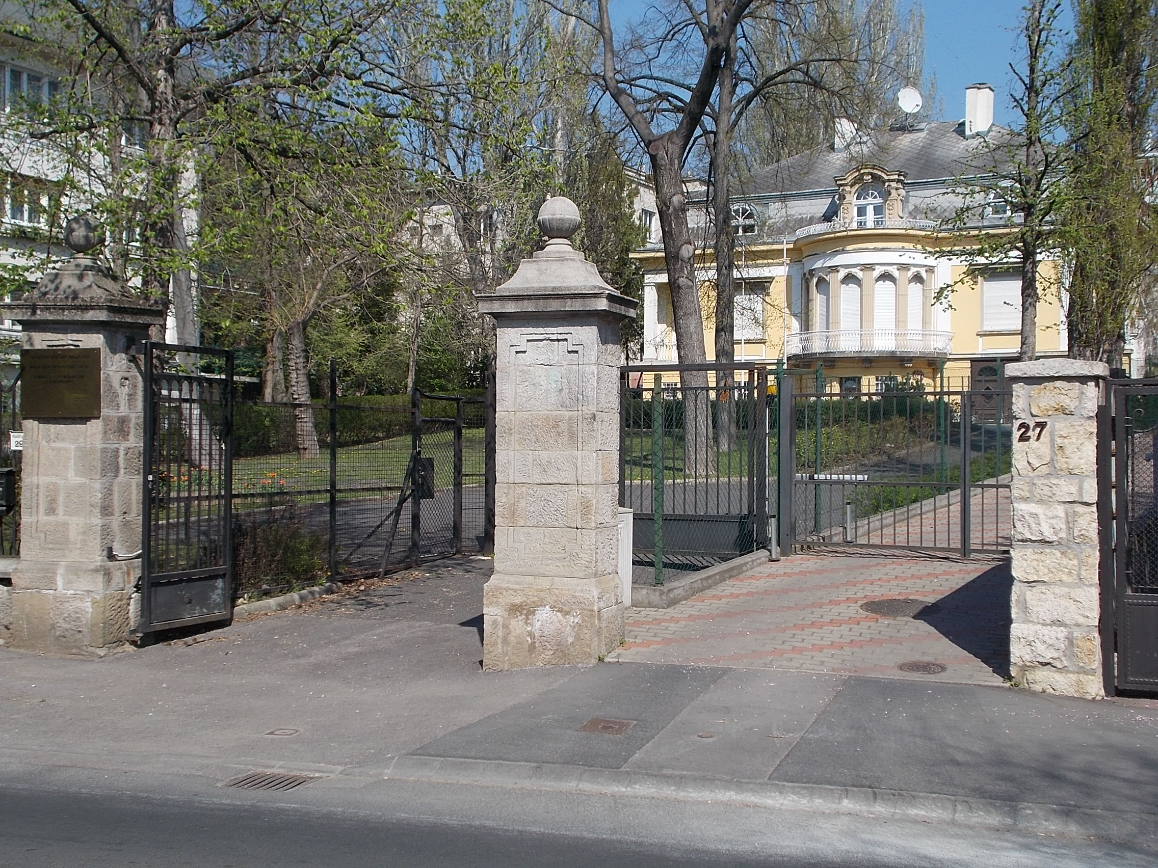 Embassy of Malaysia to Hungary. - 27 Pasaréti út, Törökvész neighbourhood, Budapest District II.